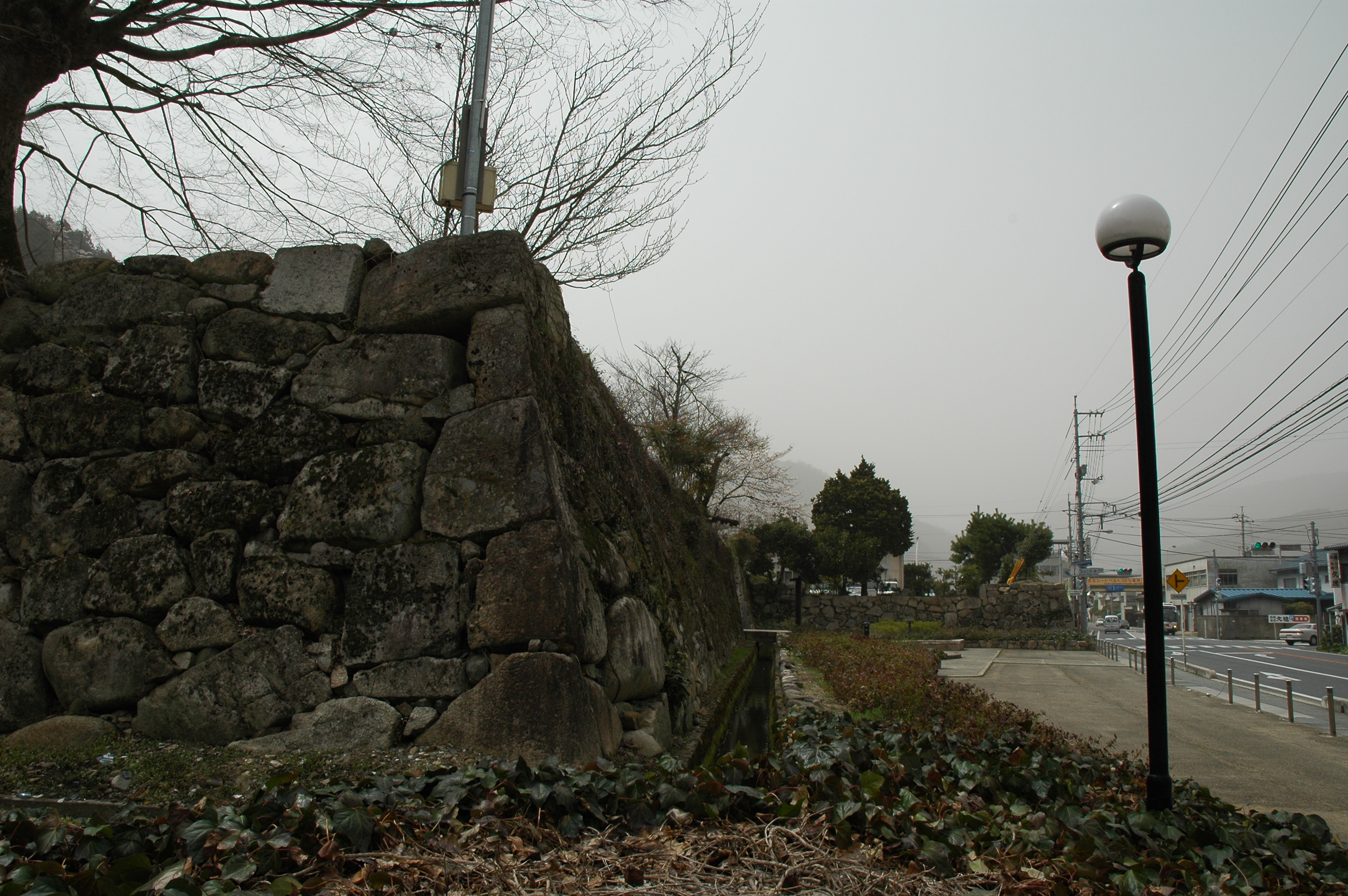 photo of Nariwa Jinya remains of Ōte-gate(Ōte-mon),Nariwa Jinya is a small castle in Nariwachō, Takahashi, Okayama, Japan. It had been the government office of Nariwa Clan (Nariwa Han) and Hatamoto Yamasaki family during the Edo period.